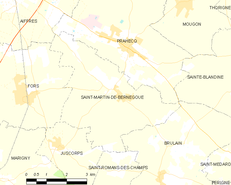 Map of French municipality Saint-Martin-de-Bernegoue